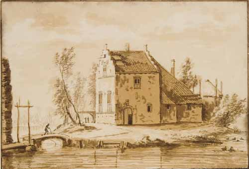 Castle Boelenham at Hemmen Gelderland, The Netherlands